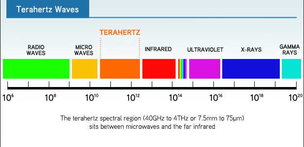 Terahertz